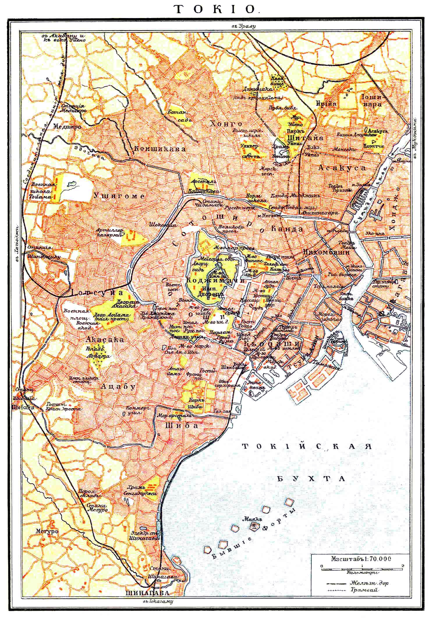 Illustration from Brockhaus and Efron Encyclopedic Dictionary (1890—1907)